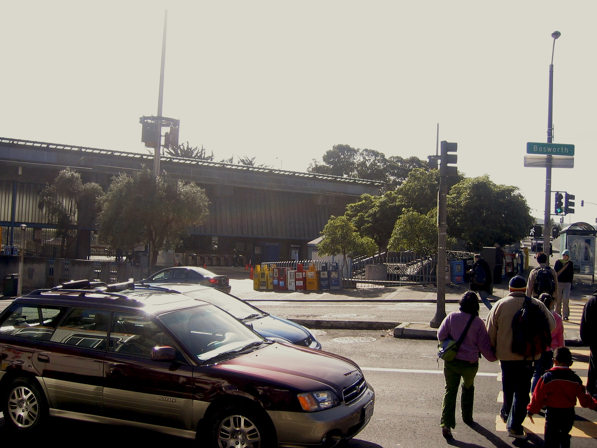 Photo of San Francisco's Glen Park BART station, exterior.